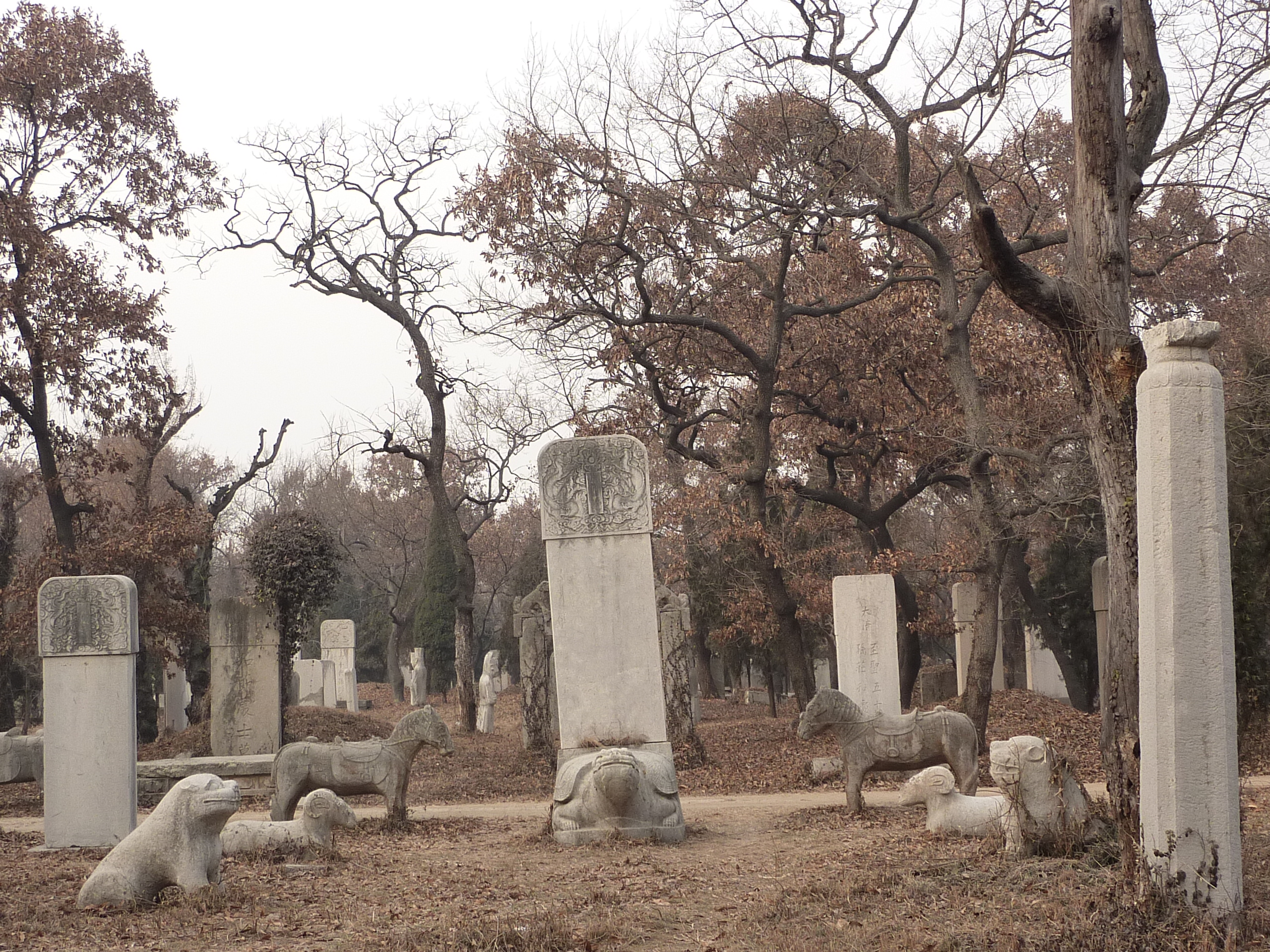 The area in the Ming (western) part of the Cemetery of Confucius where Dukes of Yansheng, who were the leaders of the Kong clan (55th through 64th generations in the direct line of descent from Confucius, according to an explanatory plaque) and the feudal rulers of Qufu, have been buried. Each of the dukes has his own "spirit road" (shendao), i.e. a a path lined with the statues of feline creatures (cat? lions? tigers?), rams, horses, warriors and officials, concluded with a stele-bearing bixi tortoise, and, finally, the actual tombstone. As elsewhere in China, the tombstones and the bixi normally face south, while the spirit way figures face each other, looking across the path that runs from the south to the north. This photo is one of the series of photos of the spirit way south of the arch of Kong Yanjin.